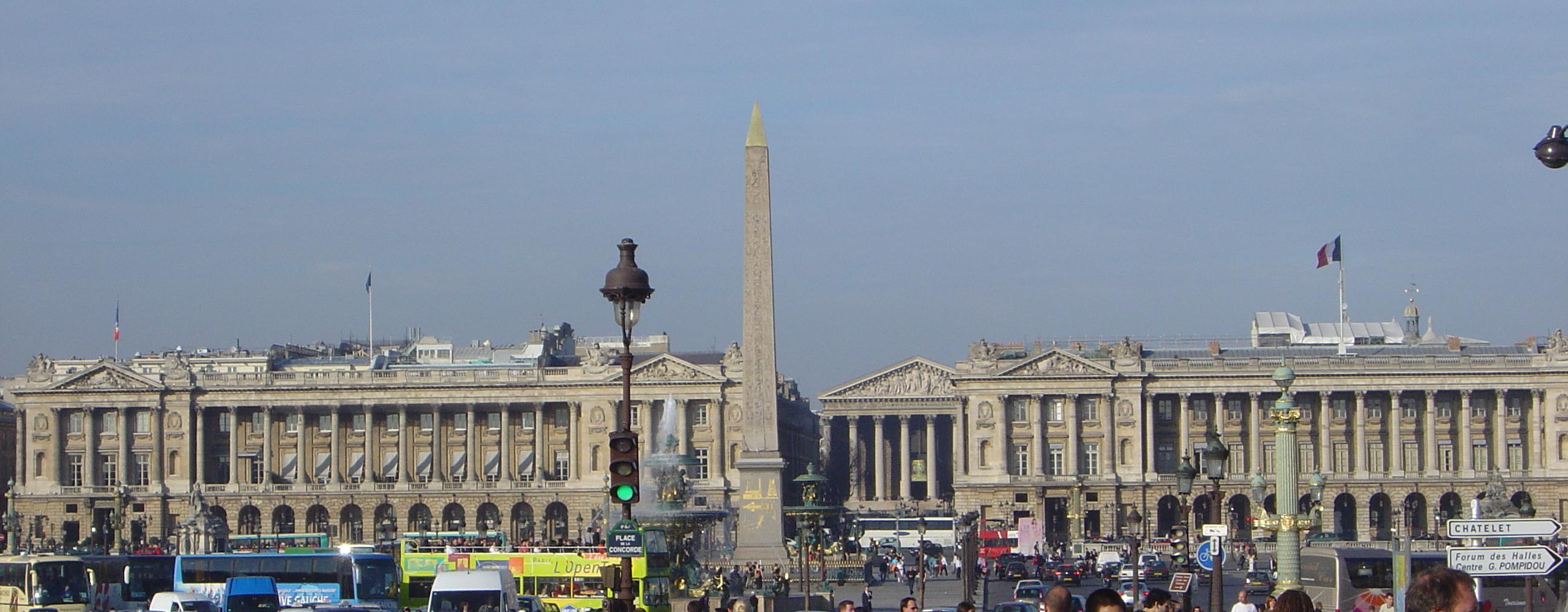 Place de la Concorde, Paris Photo by myself, March 19, 2005